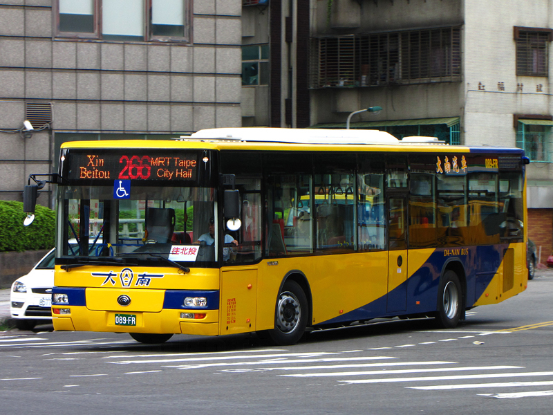 Yutong ZK6128HG